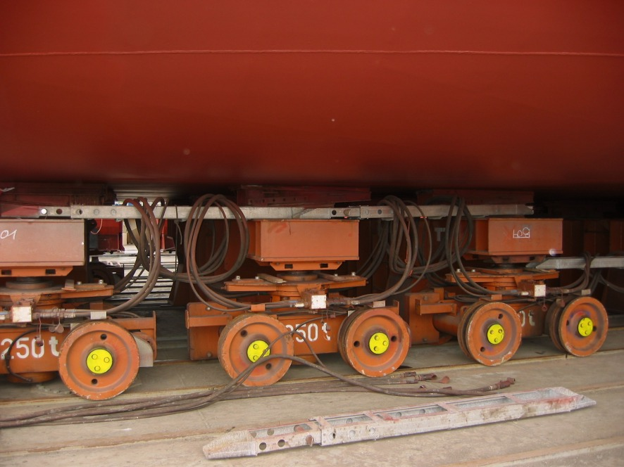 Trolleys (250 tons each) under a ship standing upon the Stralsund shiplift in Germany.